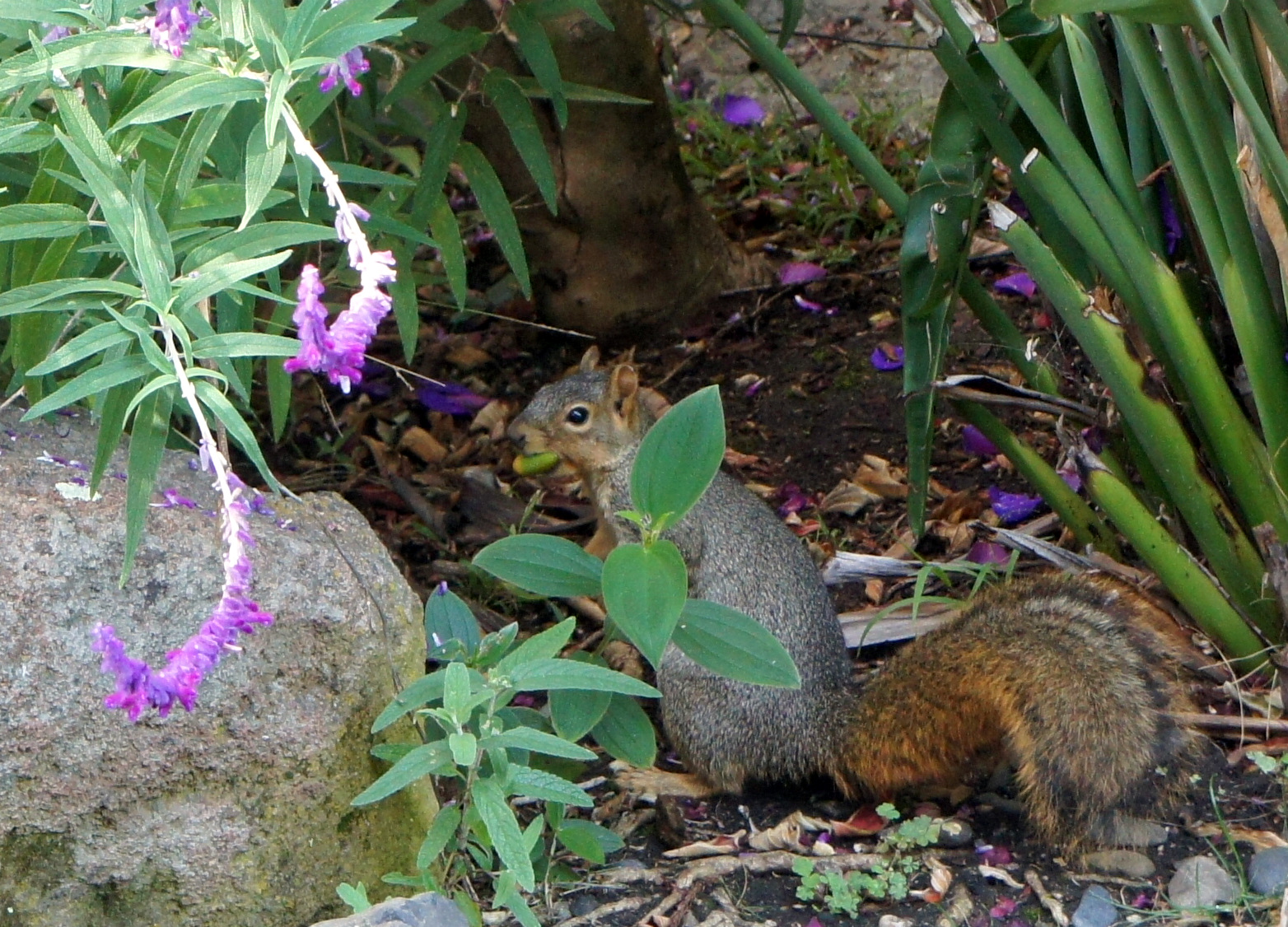 Photo of the Eastern Fox Squirrel that inhabits my Berkeley (California) garden. 20 October 2014. Squirrel spent around 15 minutes with acorn in mouth, trying out various areas before he finally decided to bury it... under my deck chair. [1]